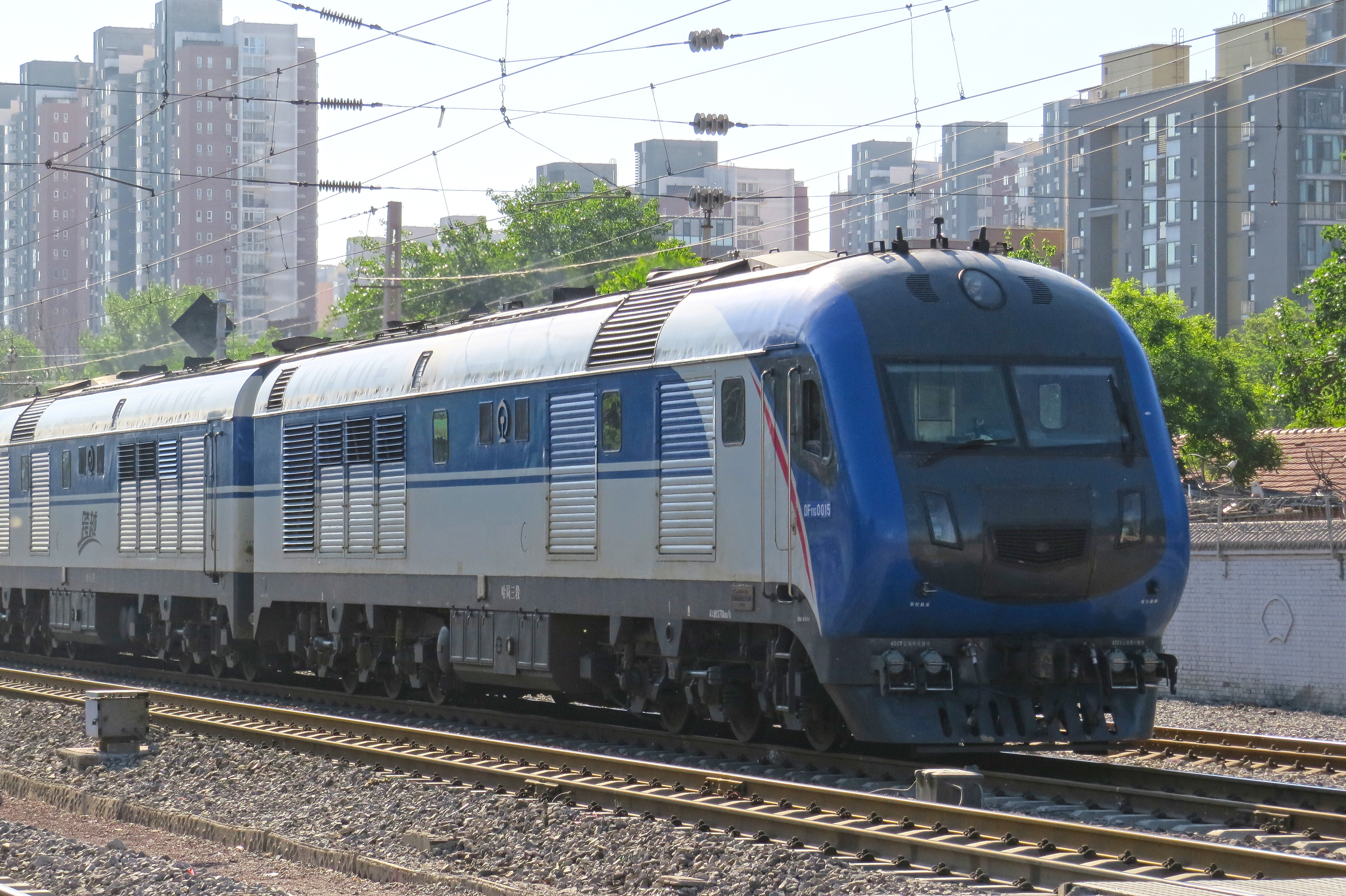 Z2 from Harbin, also delayed. This train will become Z18 from May 10, and the DF11G+BSPs will be replaced by SS9G/HXD3D+25Ts.